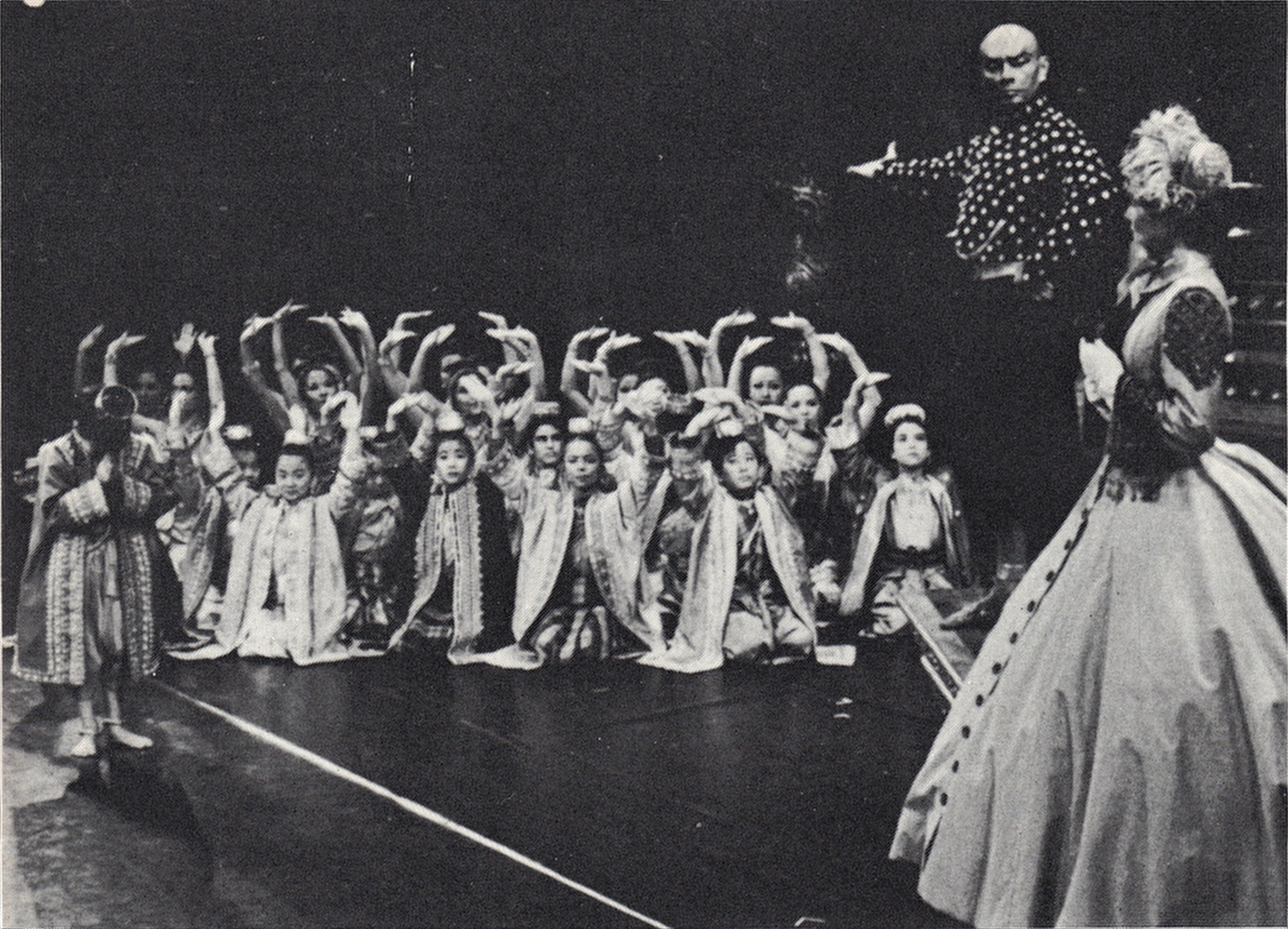 Yul Brynner as the King presents some of his children to their new schoolteacher, Anna Leonowens (Constance Towers), from a 1977 souvenir program for the play The King and I. Lacks any copyright notice, so it is no longer under copyright. Scanned from physical copy